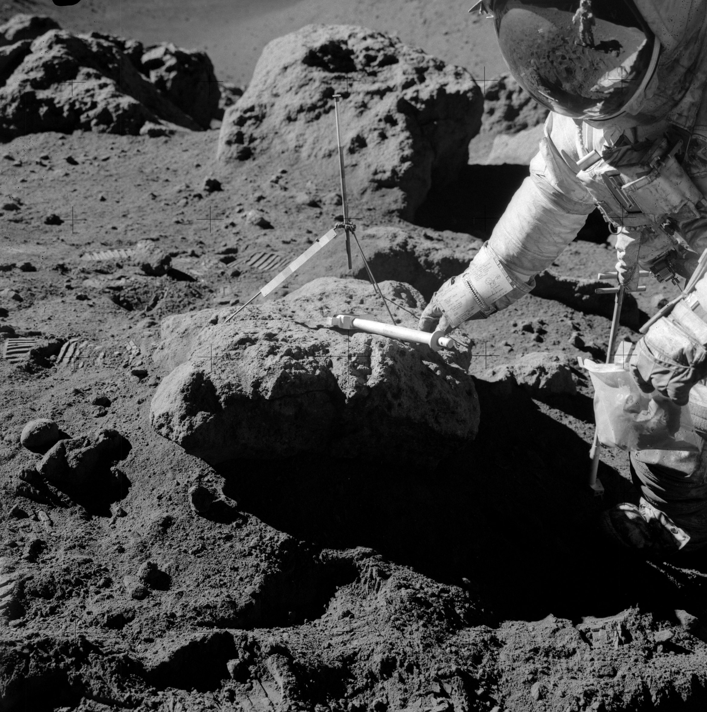 Dave Scott sampling at the boulder on the rim of Hadley Rille at Station 9a. Jim Irwin's reflection can be seen in the visor